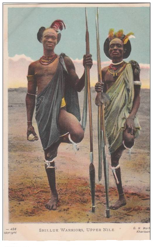 Poscard